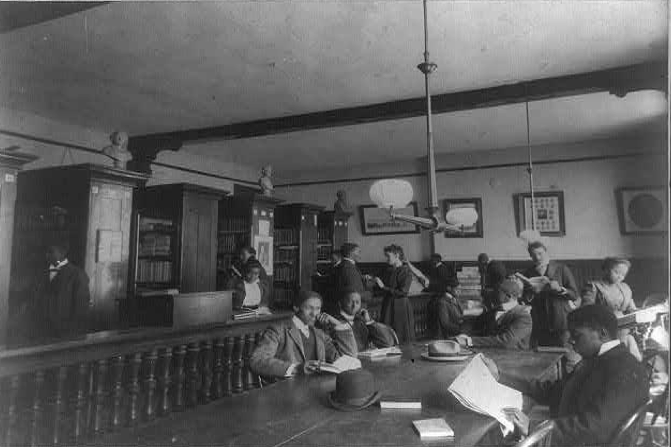 Fisk University, Nashville, Tenn., 1900 - library interior Other information No.